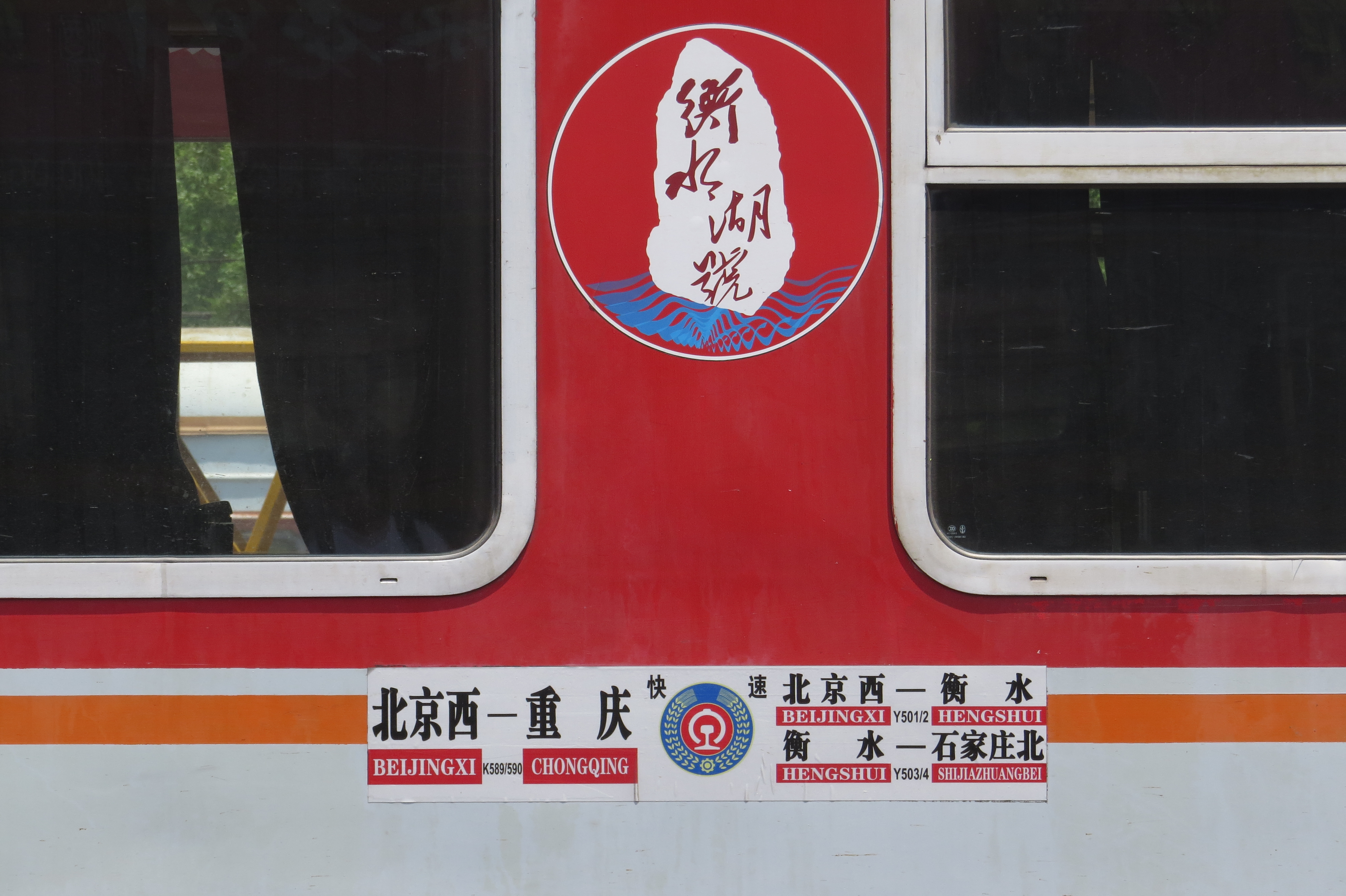 Now its destination becomes Caiyuanba.